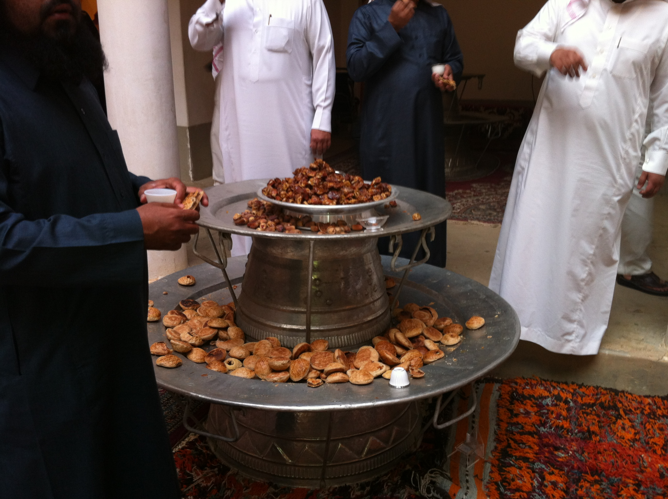 Kleeja in Qassim Section at Jenadriyah 27